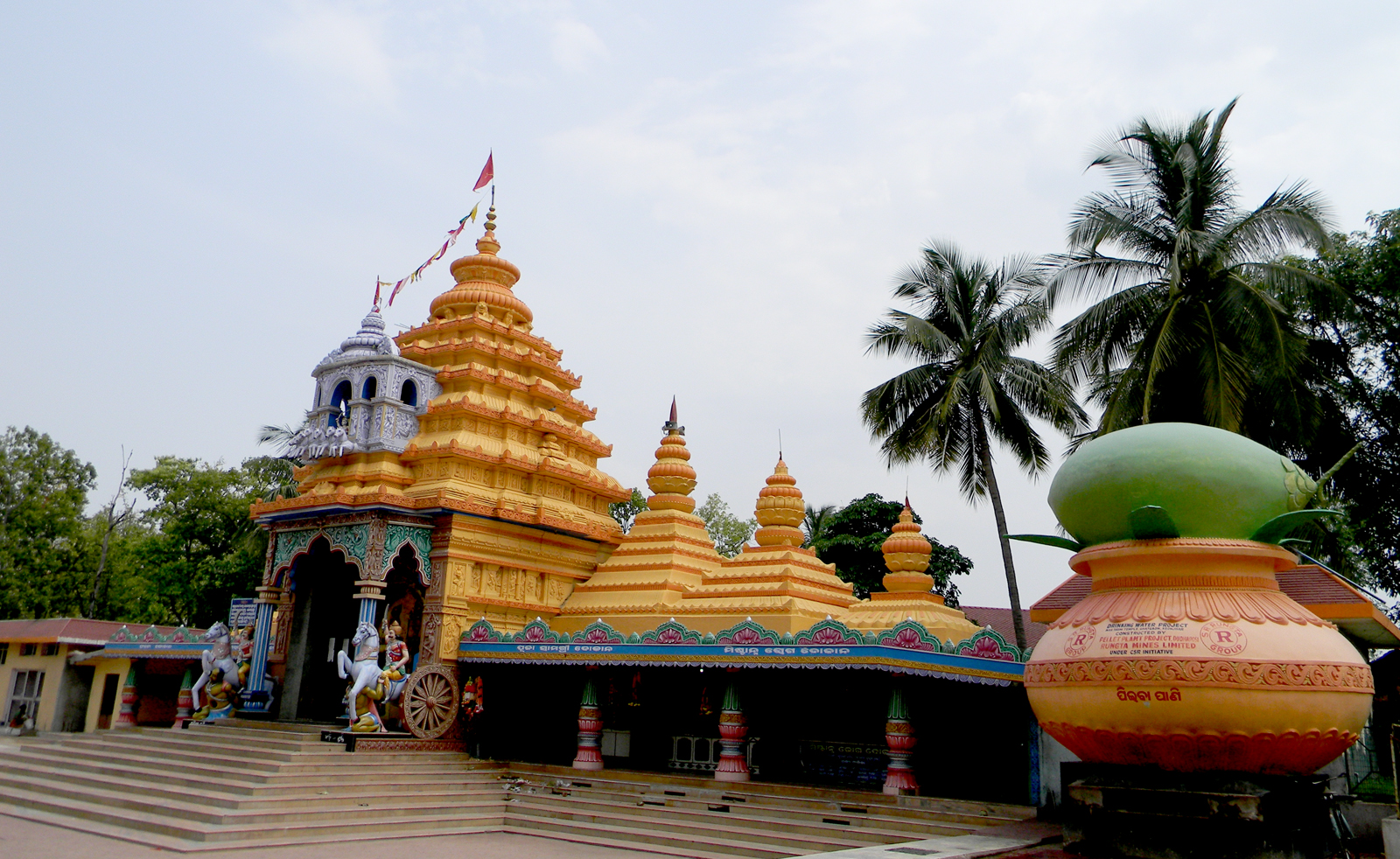 ଓଡ଼ିଆ: Maa Tarini Temple This media file is uploaded with Odia loves Wikipedia English |italiano |македонски |മലയാളം |ଓଡ଼ିଆ +/−